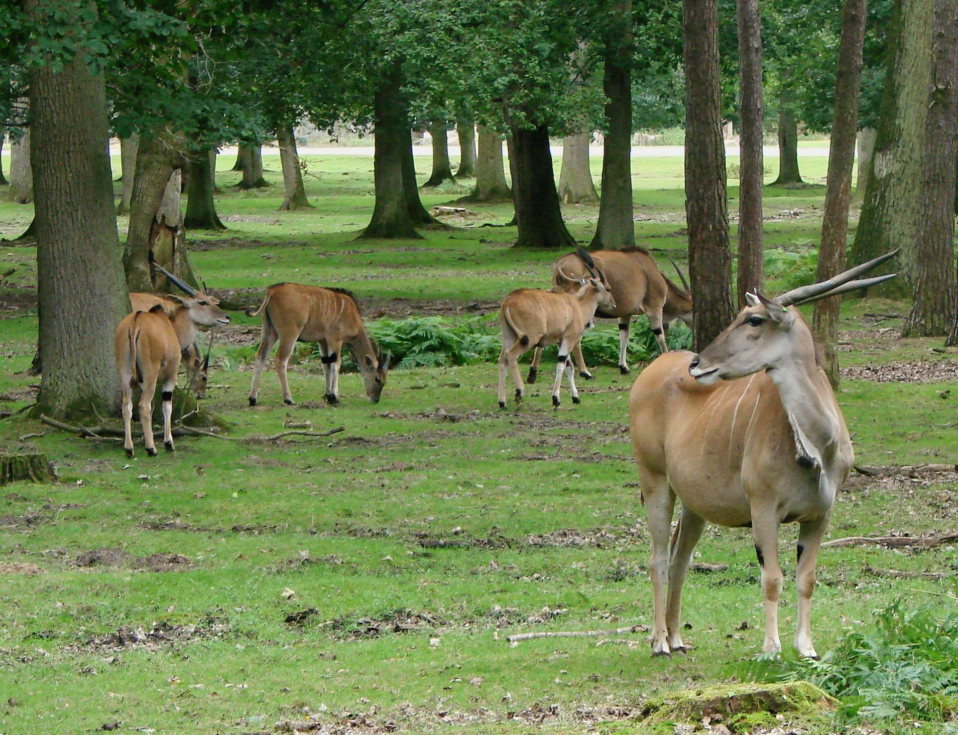 Elands (Taurotragus oryx) in the Thoiry zoo.